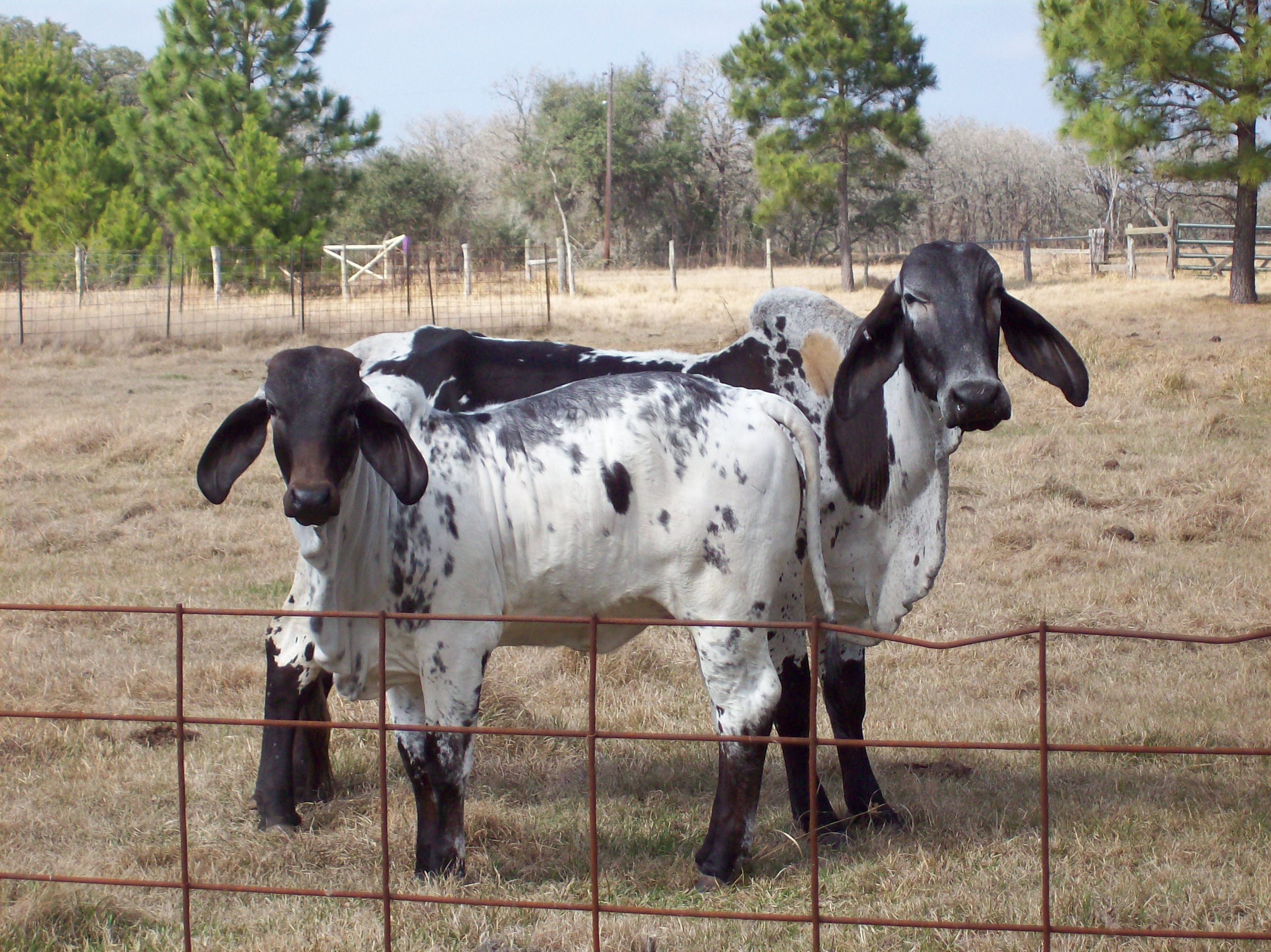 Brahman calves